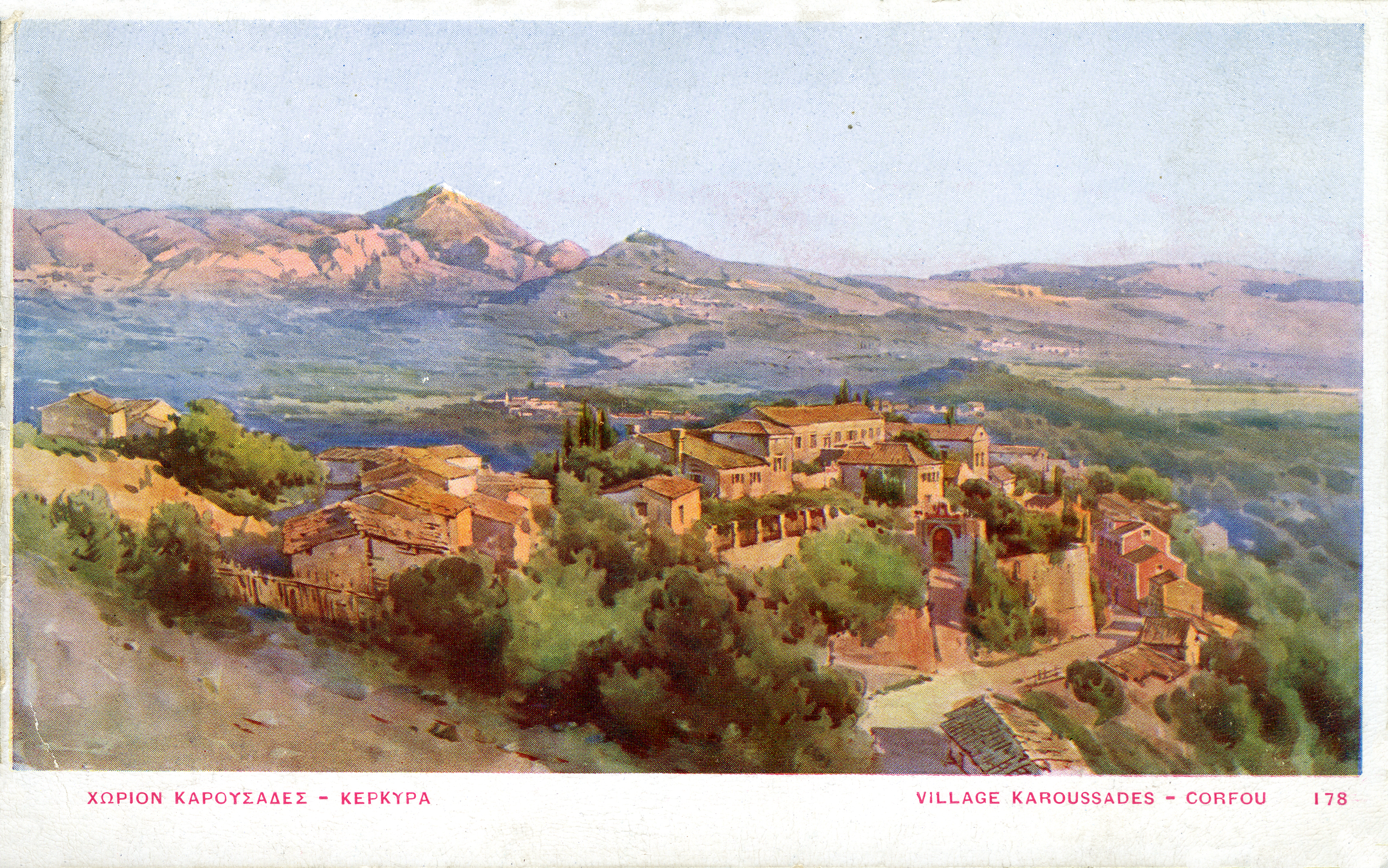 Village of Karousades in Corfu. Postcard published by Aspiotis. Reproduction of a painting by Angelos Giallinas.